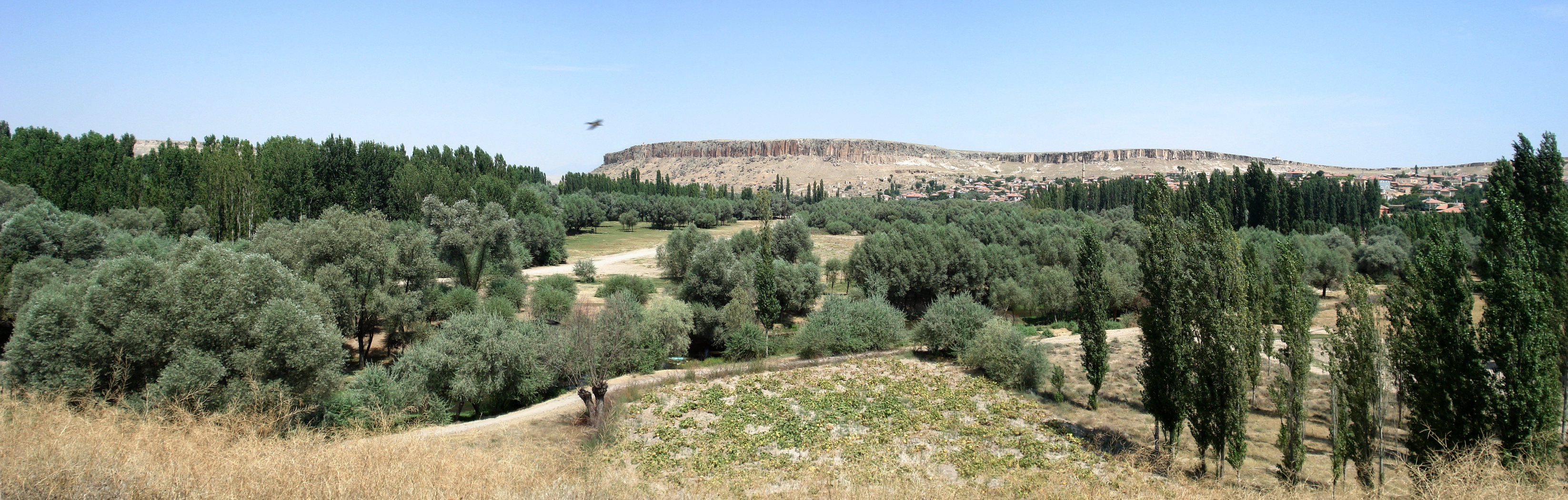 Panorama from top of Aşıklı Höyük mound, facing north-west. Note Kızılkaya to the right of the picture.